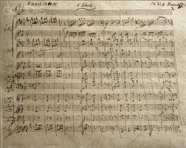 Autograph score of a page from Symphony No. 38 in D major, the 'Prague symphony', by Wolfgang Amadeus Mozart.